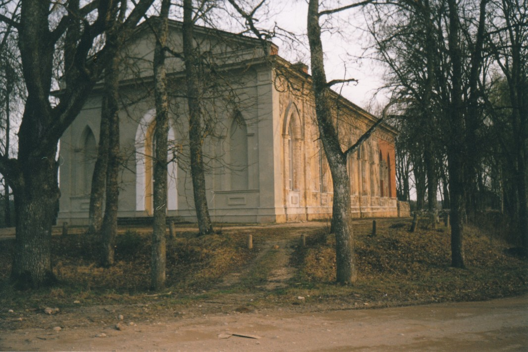 Vecpiebalga Evangelical Lutheran Church